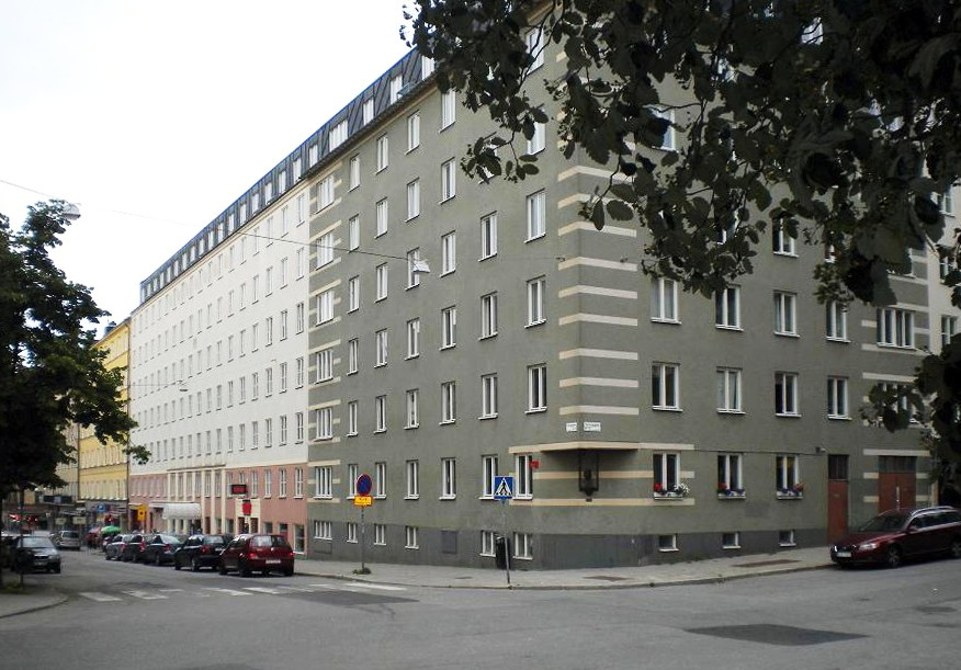 Monument and bust of Greta Garbo on the corner of the (newer - built 1978-81) building at the address where she was born on Blekingegatan, a block west of Götgatan on the Southern Isle (Södermalm)Place: Stockholm, Sweden